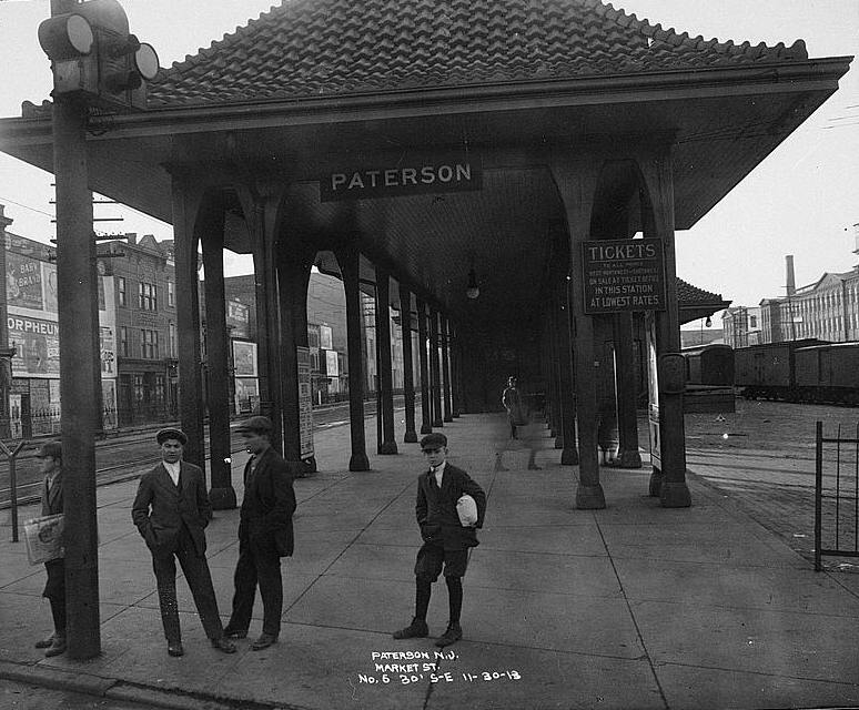 1. GENERAL VIEW OF THE STATION - Erie Railway, Paterson Station, Paterson, Passaic County, NJ 11-30-13